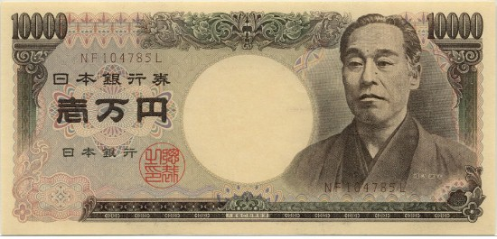 10,000 yen note from Japan, with Fukuzawa Yukichi's portrait, originally engraved by Oshikiri Katsuzō. Ð˜Ð·Ð¾Ð±Ñ€Ð°Ð¶ÐµÐ½Ð¸Ðµ:10000 yen note.JPG